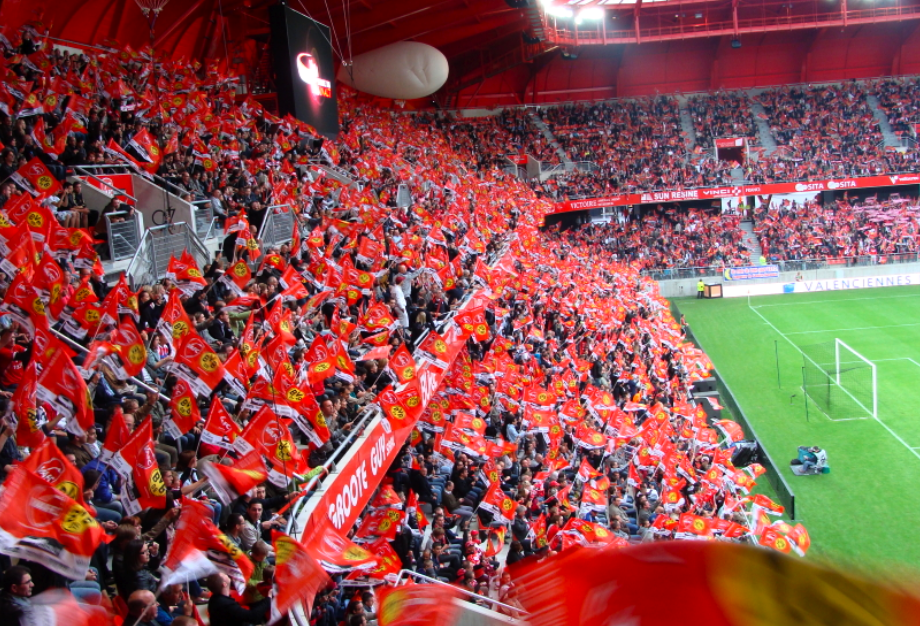 Valenciennes FC vs Borussia Dortmund (Stade du Hainaut, first match)